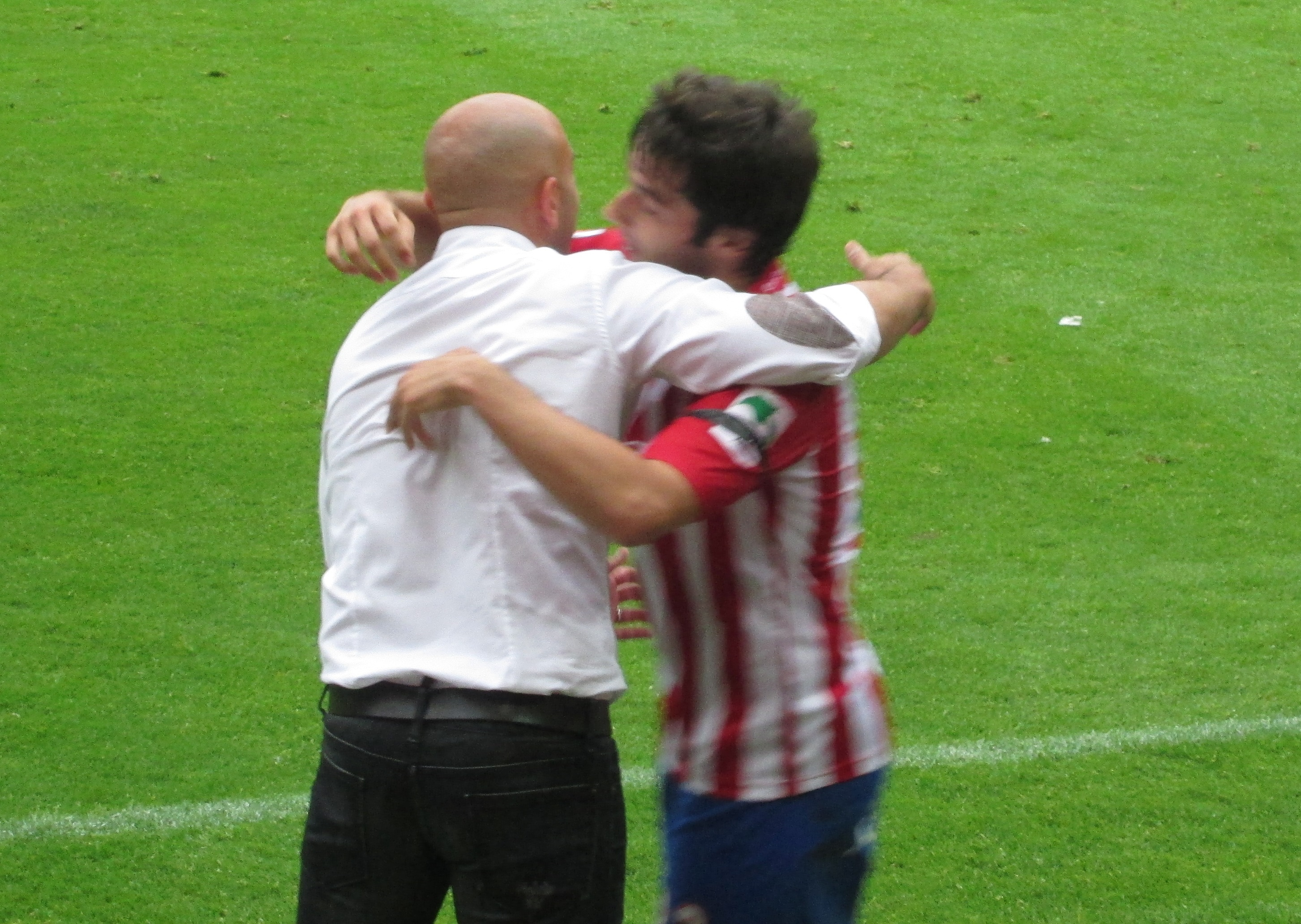 Abelardo and Jony embrace after the first goal of the second one.